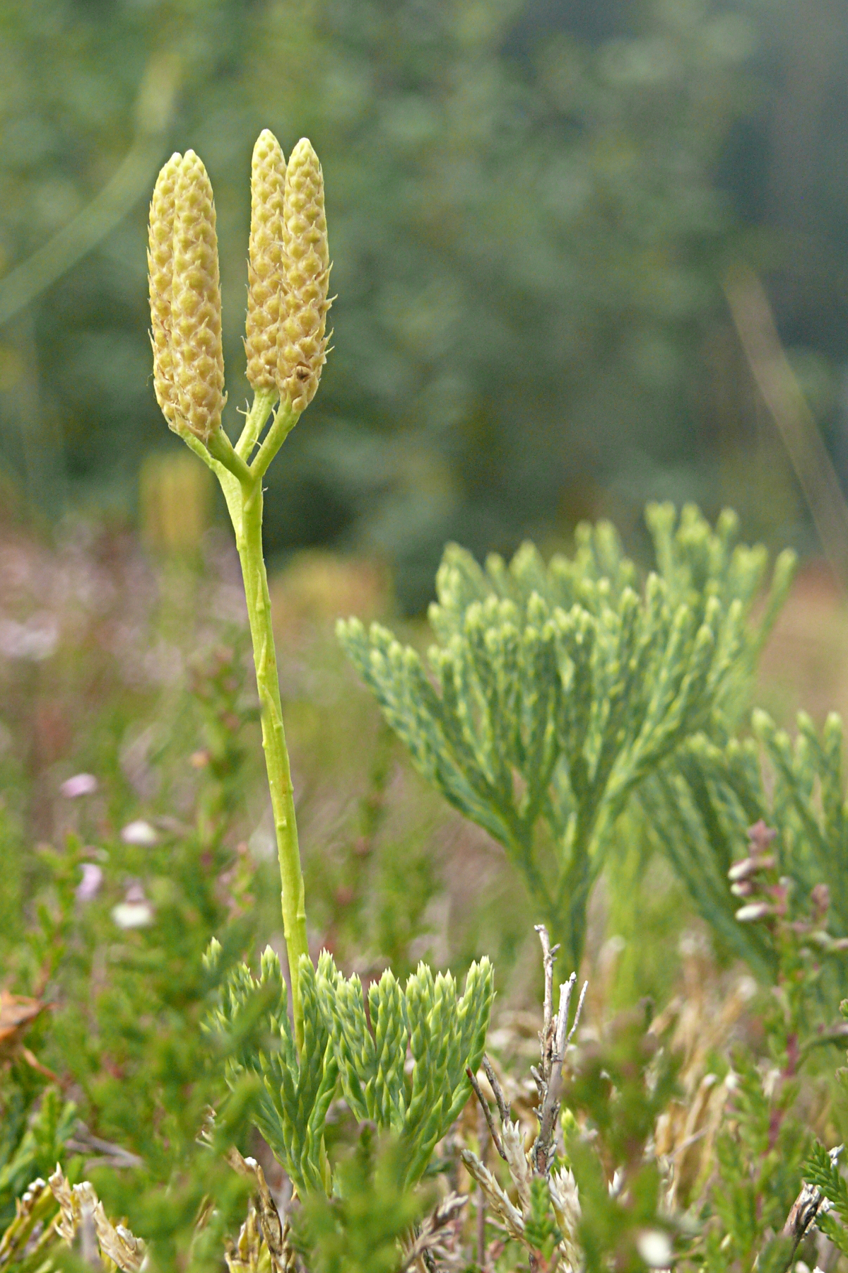 Diphasiastrum tristachyum (Pursh) Holub - Blue ground-cedar - Odenwald